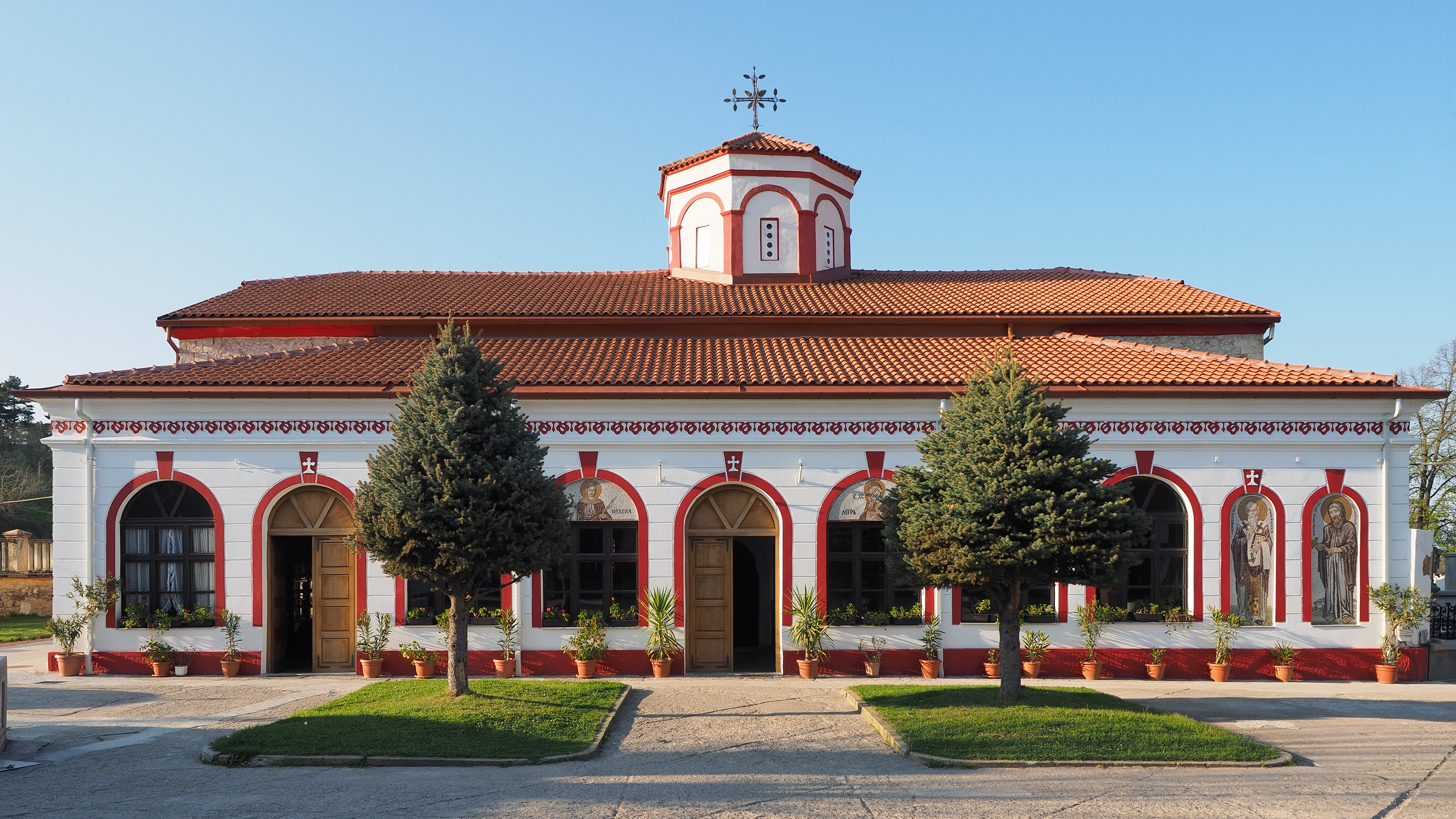 St. Nedela Church (Bitola) Српски (ћирилица): Црква Свете Недеље, Битољ This photograph was taken with an Olympus E-M1